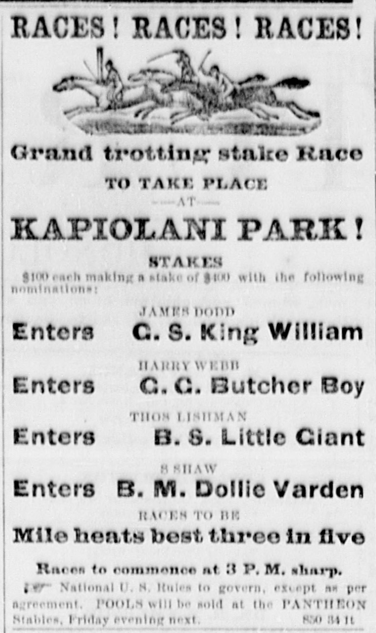 An ad announcing a horse race in Kapiolani Park. Saturday Press, April 30, 1881, Image 2 From the University of Hawaii at Manoa Library